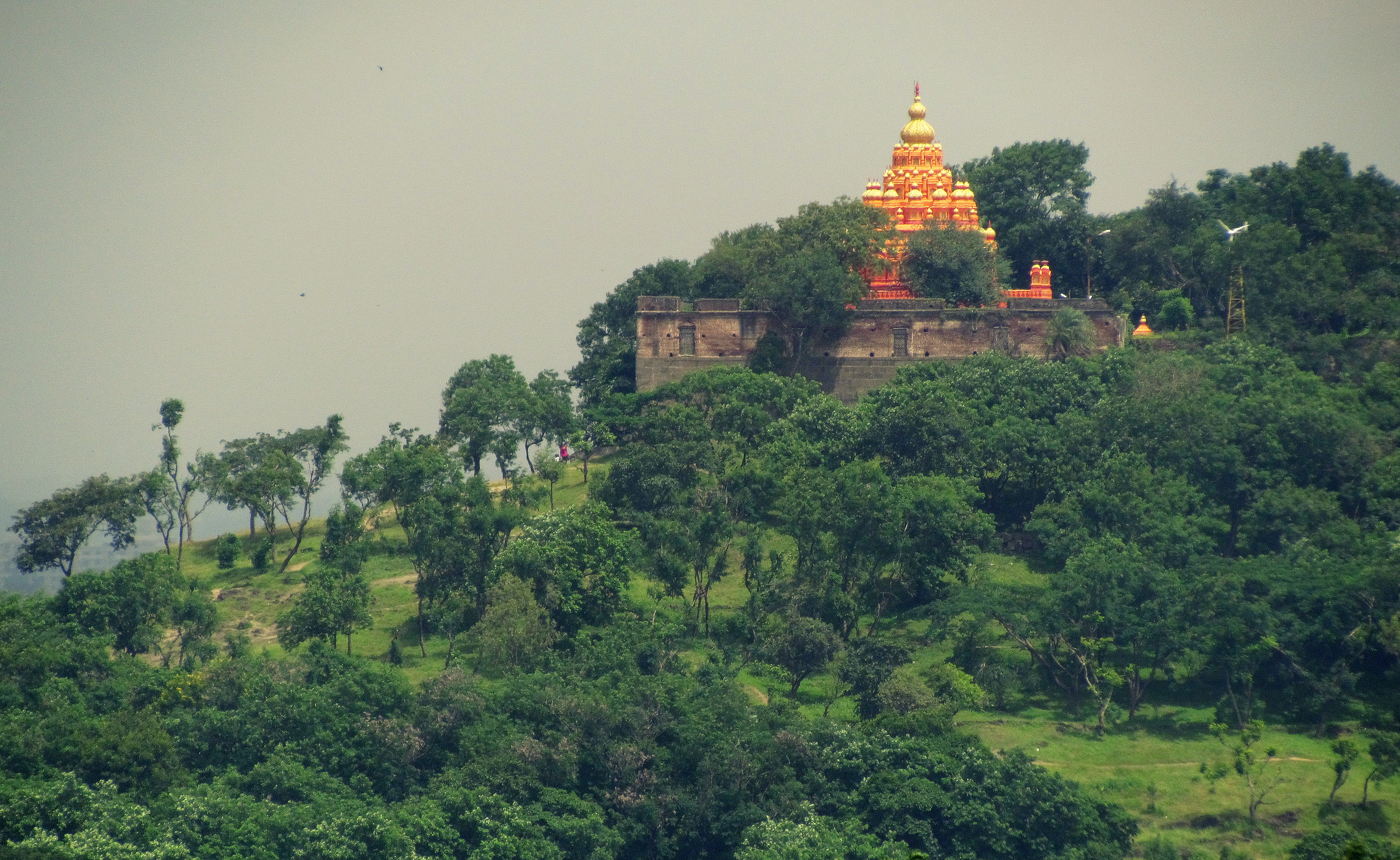 Parvati stands tall amidst the city of Pune. It is a beautiful palace which now stands as a famous cultural point.